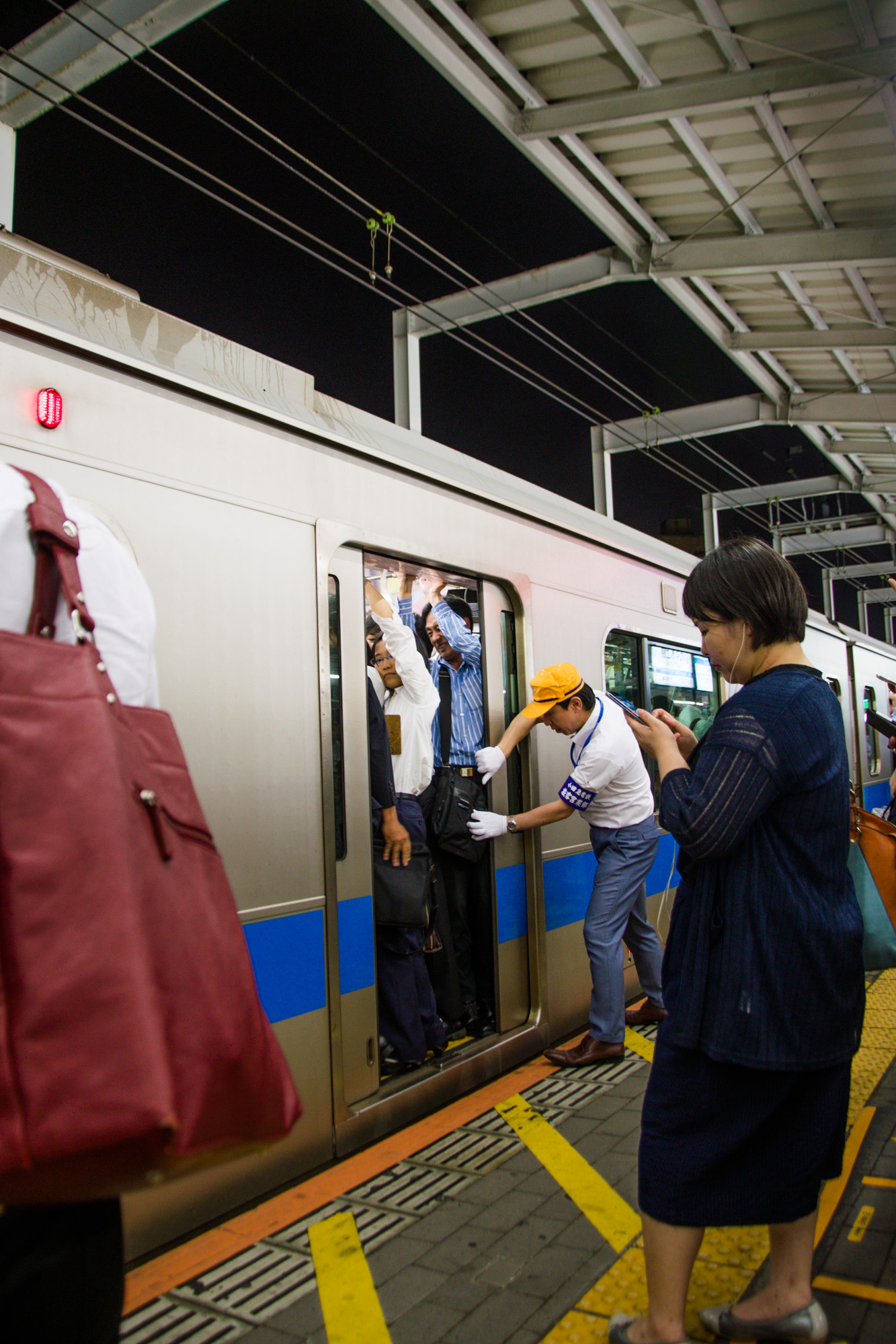 Shibuya Station at rush hour. Tokyo July-2016